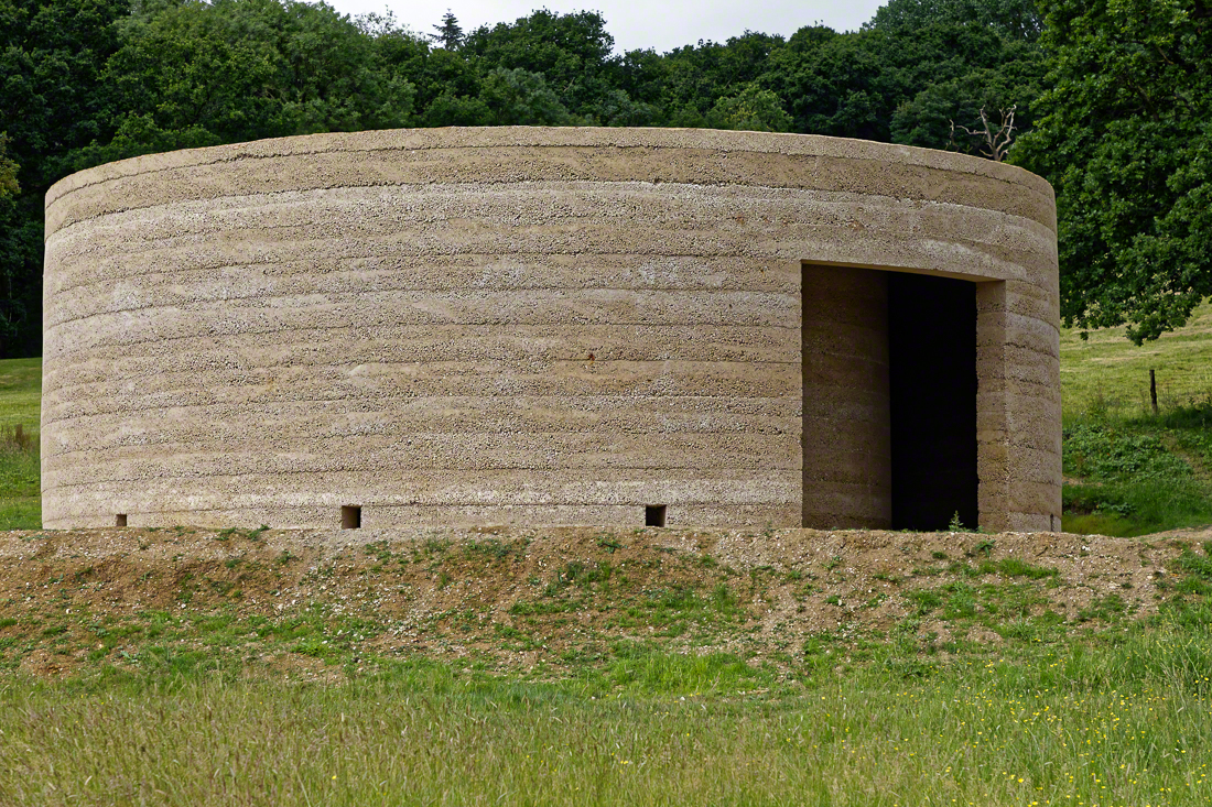 Public art 'Writ In Water' designed by artist Mark Wallinger with architects Studio Octopi & installed at Runnymede to commemorate Magna Carta